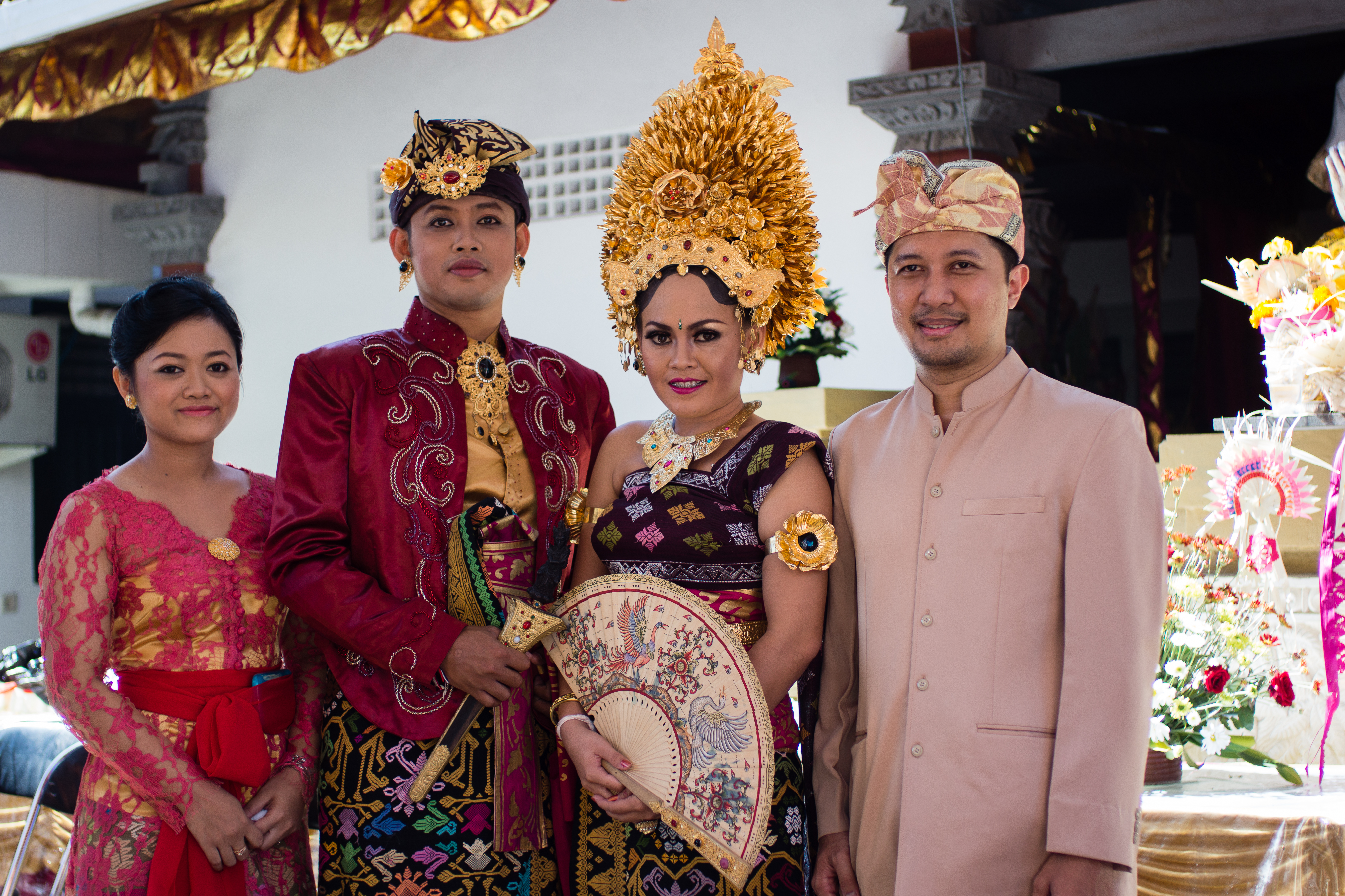 Traditional dress of Hindu bride and groom Bali Indonesia